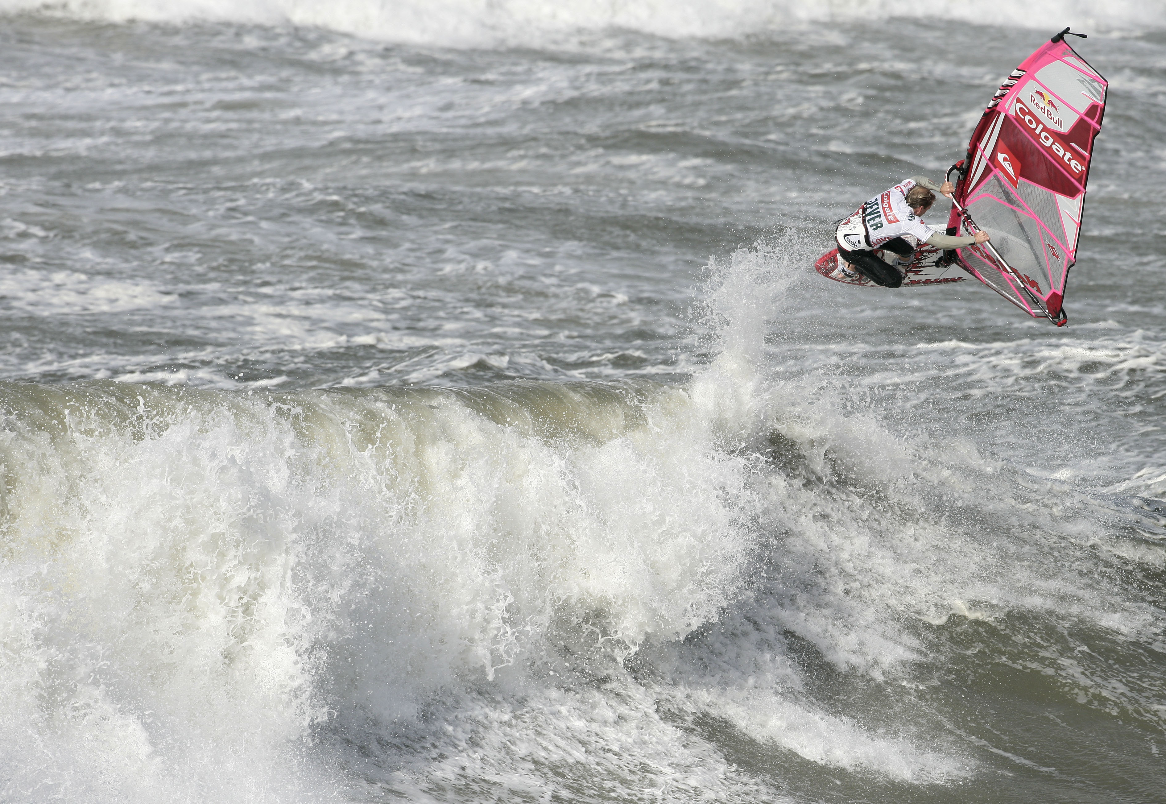 Robby Naish, Expression Session, Windsurf World Cup Sylt 2009